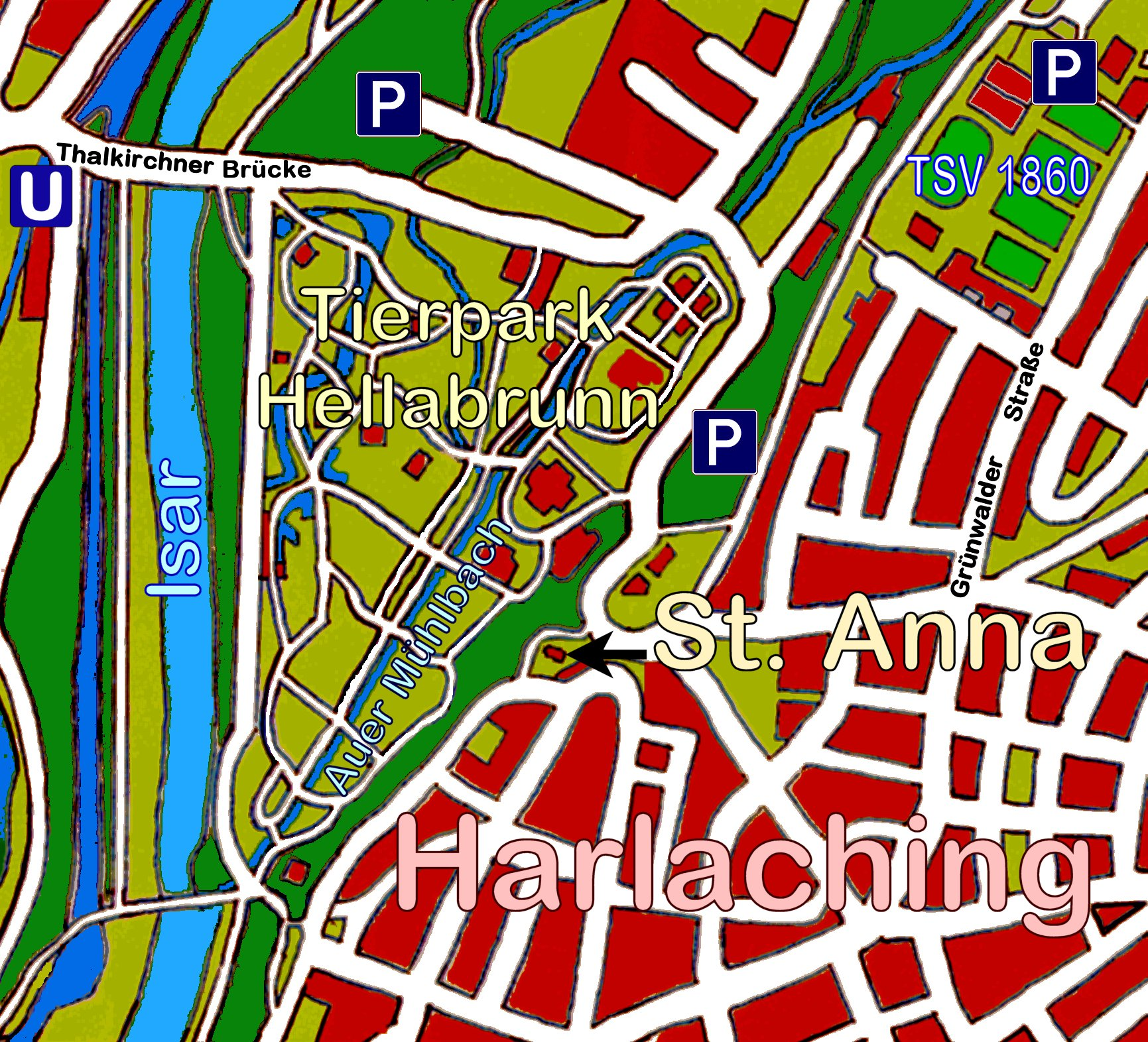 Map of Harlaching with Church St. Anna, Tierpark Hellabrunn, River Isar, Underground-station Thalkirchen, parking-lots